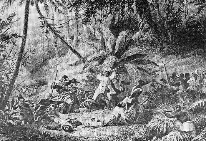 Depiction of the Battle of Ravine-à-Couleuvres (23 February 1802), during the Haitian Revolution.